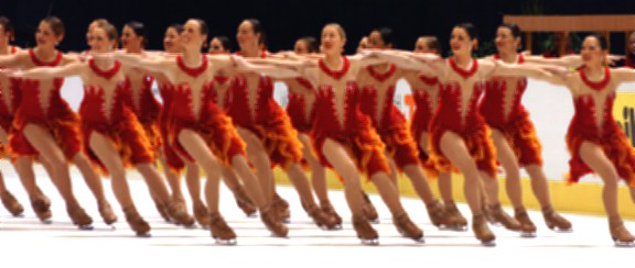 Synchronized skating team